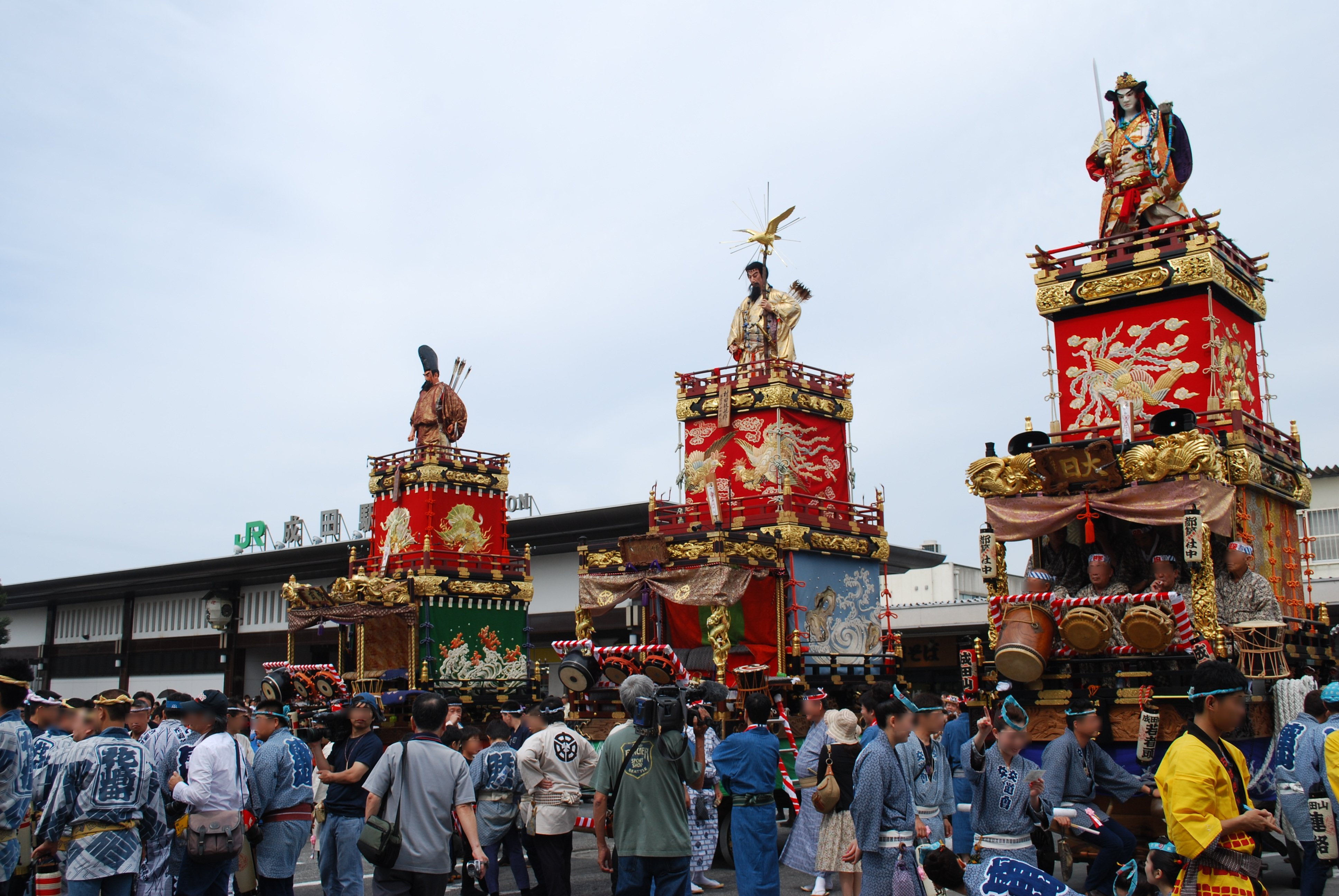 Narita-gion-festival,floats,Narita-city,Japan